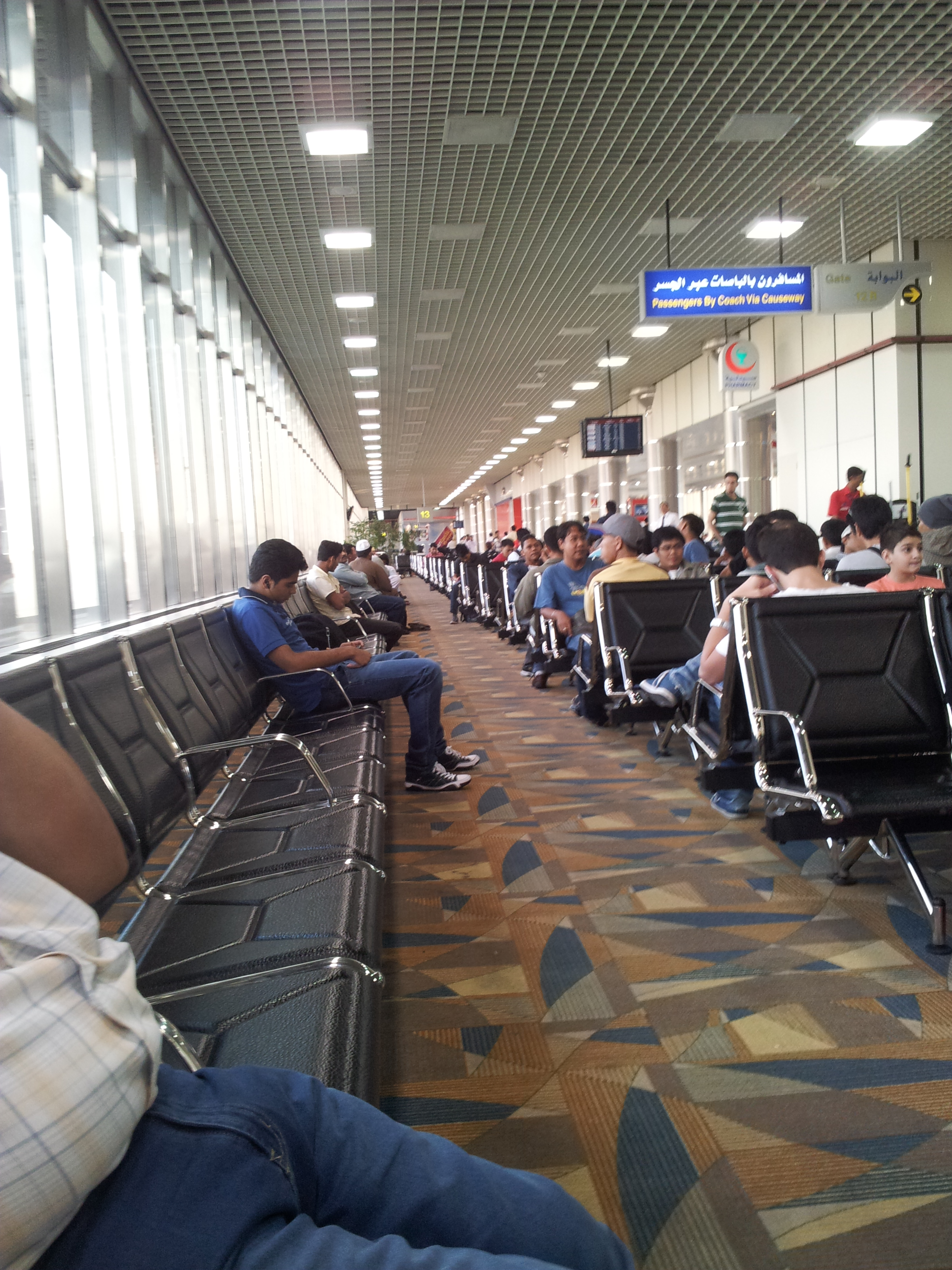 Bahrain International Airport: awaiting boarding